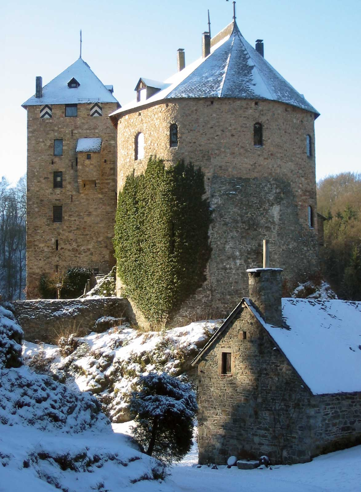 Belgium, Reinhardstein